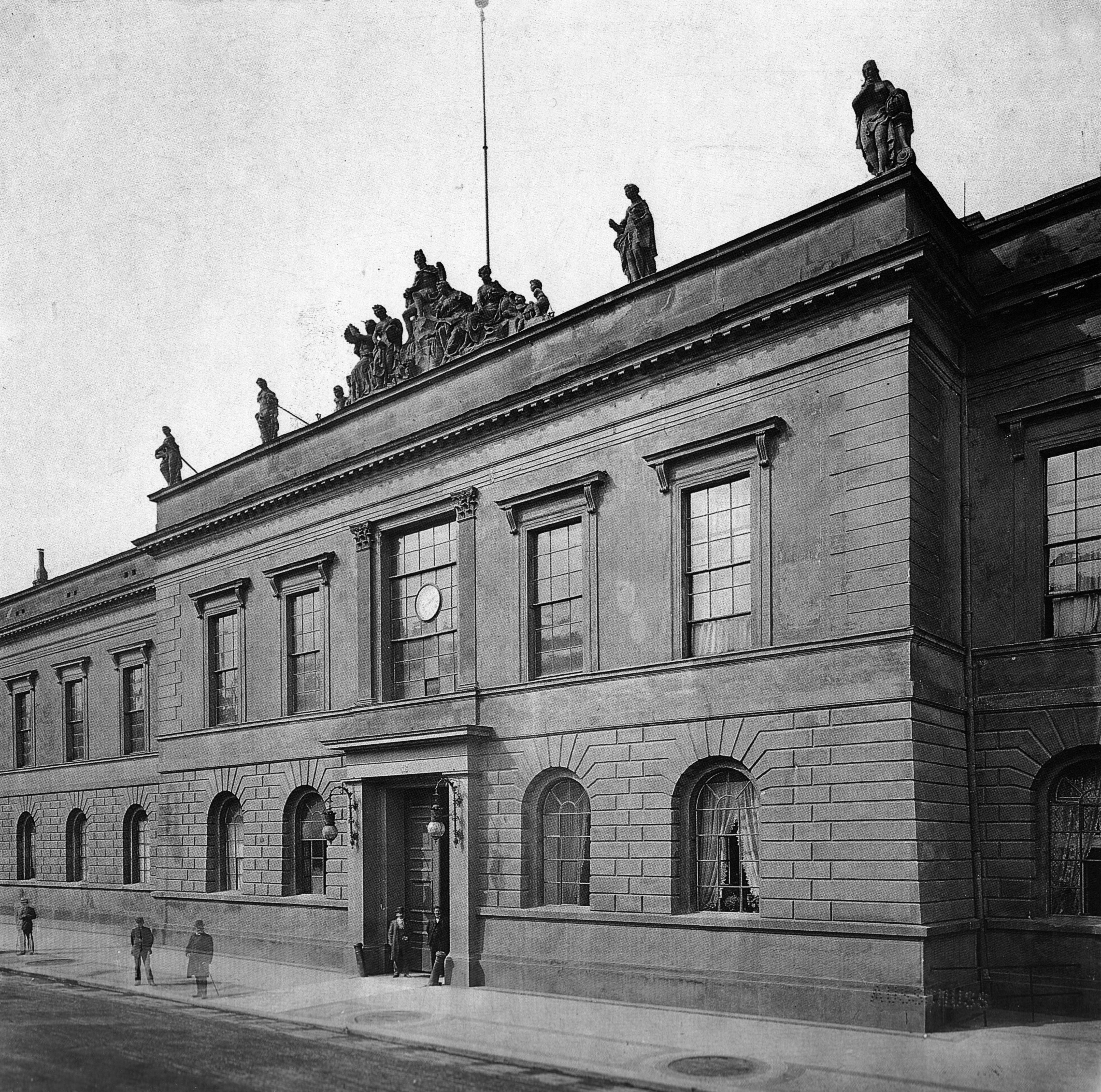 The old Prussian Academy of the Arts in No. 8, Unter den Linden, Berlin. In 1914 the new building of the Prussian State Library was completed in its place.